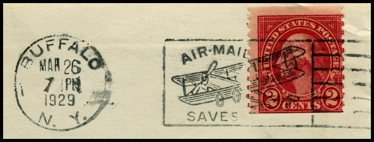 US postmark from 1929 with pictorial slogan cancellation "AIRMAIL SAVES TIME"; U.S. stamp, 1929, 2 cents, Washington, carmine, coil, Scott #599A